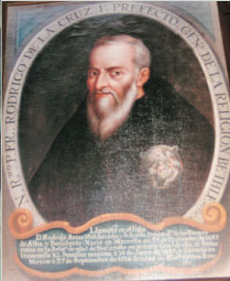 Rodrigo de la Cruz's portrait, general superior of Bethlemite Order at Guatemala